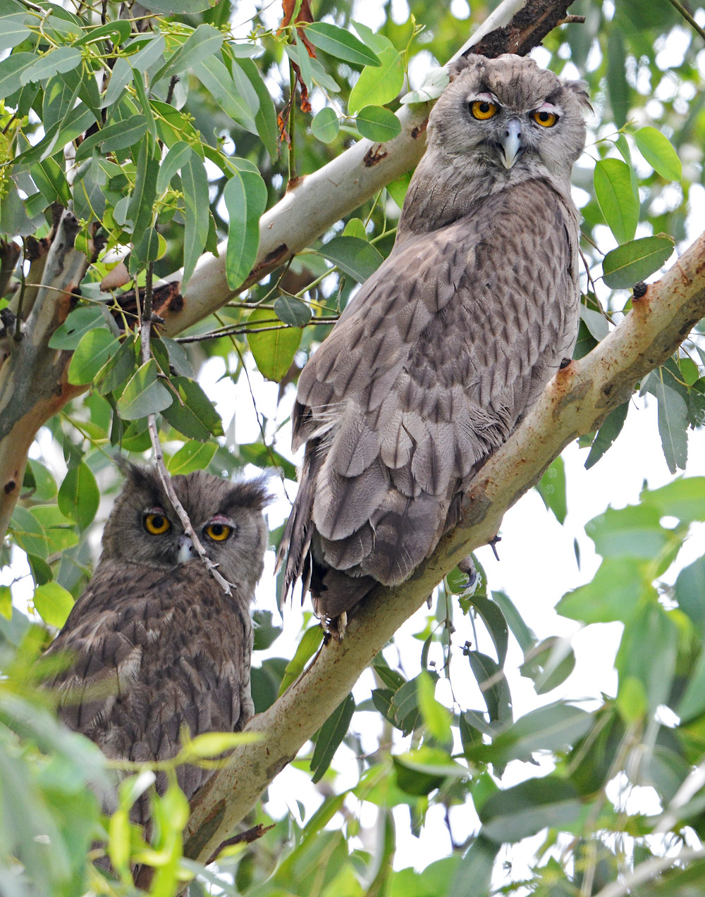 A pair of Dusky Eagle Owls (Bubo coromandus) from Haryana